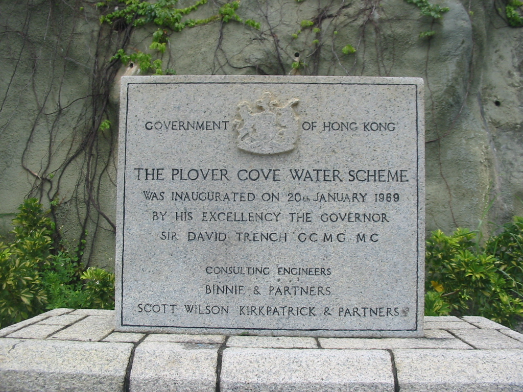 Stela of Plover Cove Reservoir